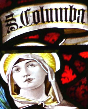 my own photo taken at St Columb Church in Cornwall.